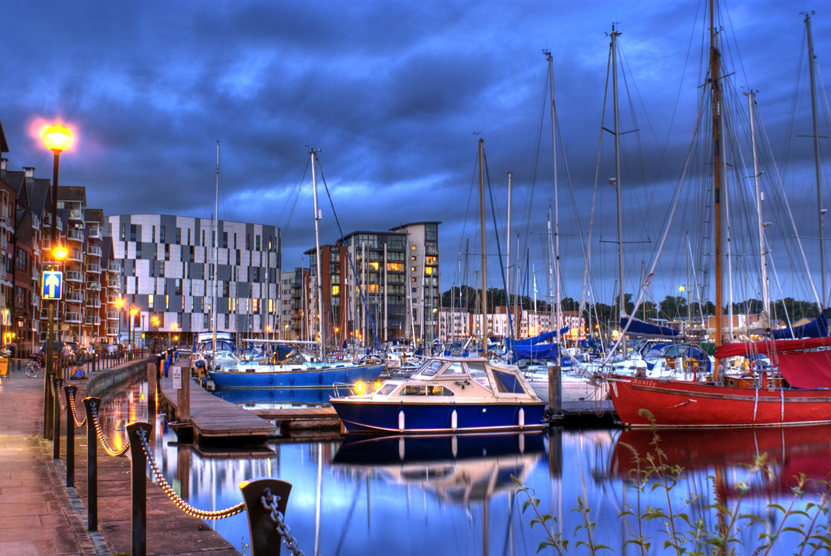 Cant decide if I like this one more than the felixstowe pier hdr shot....